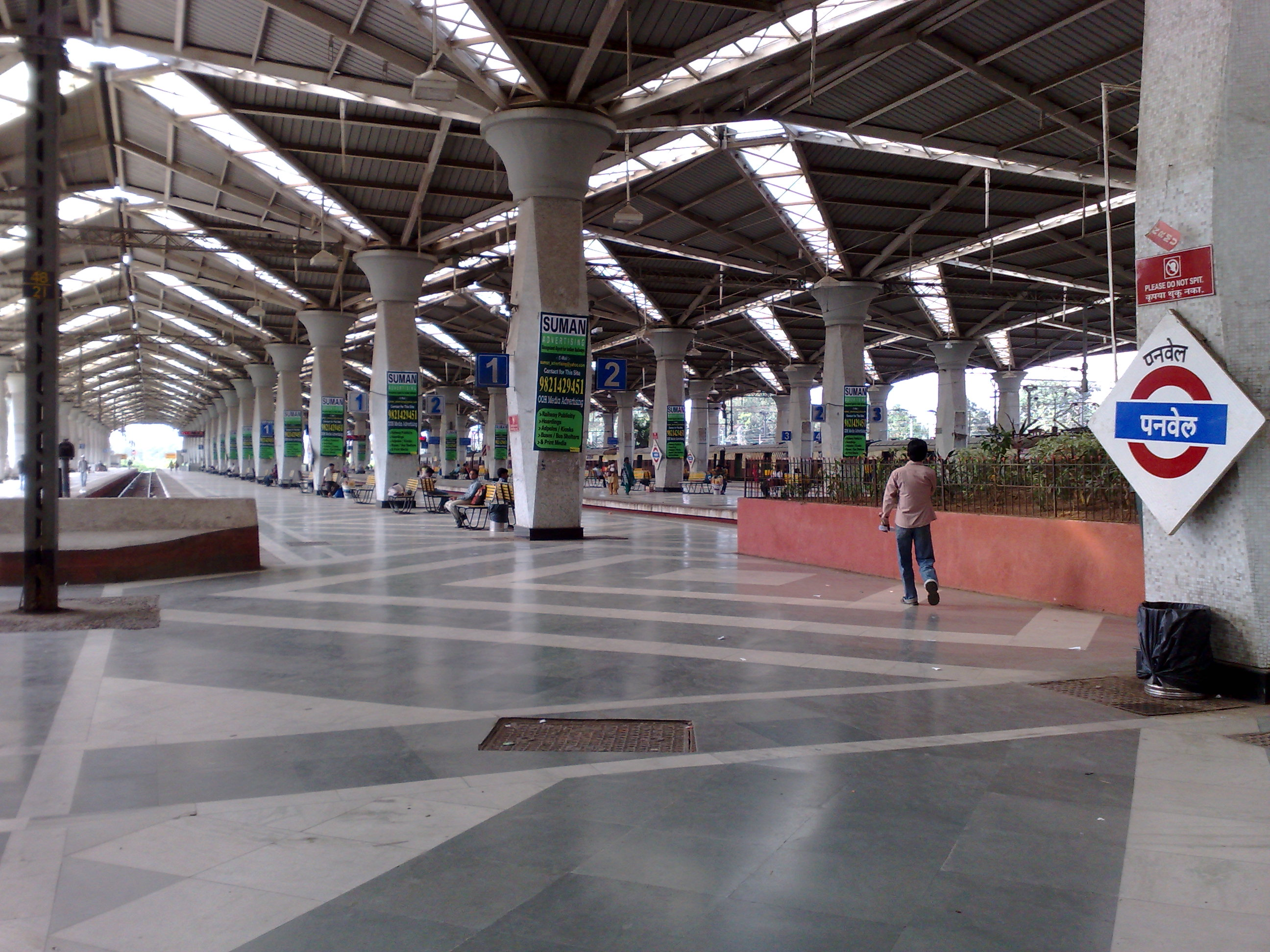 Panvel railway station - Interior